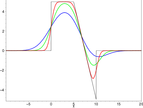 The graph of a function f(x) (black) and its generalized Weierstrass transforms for t=0.2 (red), t=1 (green) and t=3 (blue). The standard Weierstrass transfrom F(x) is the case t=1, the green graph.